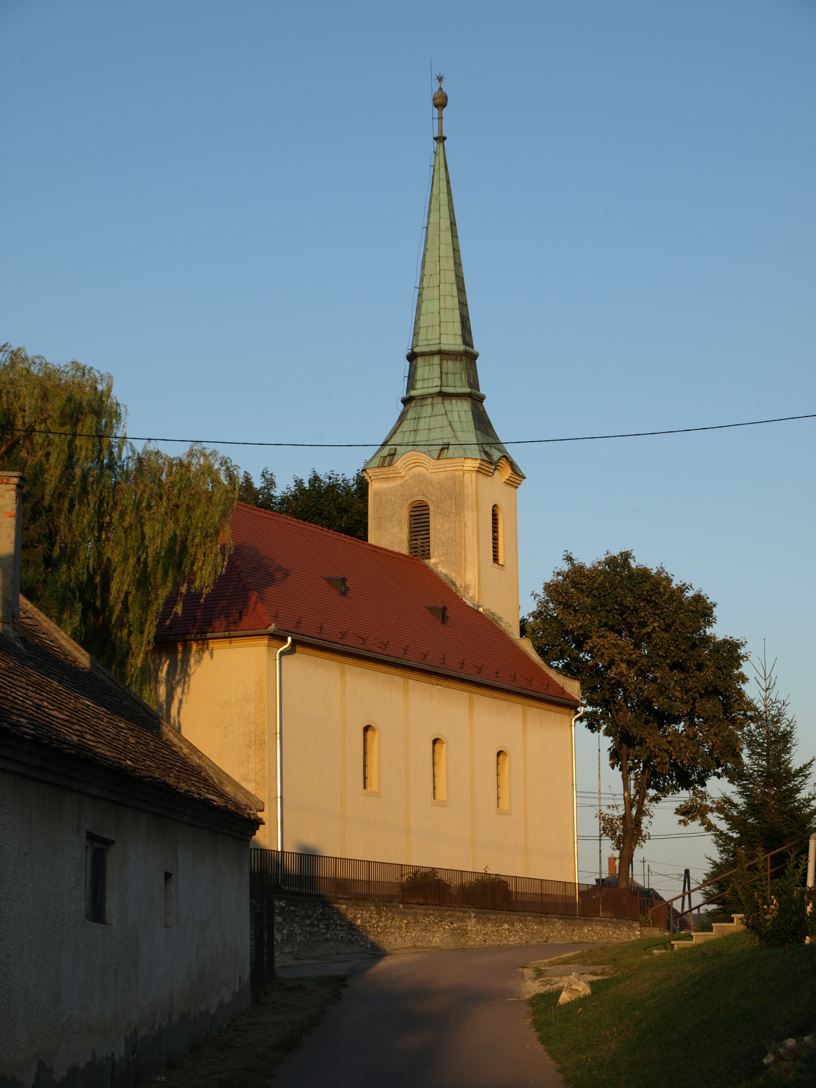 The Church in the village of Bakonyszentkiraly